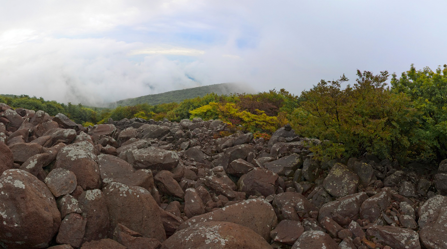 Rockfield at Mt. Jang (Busan) 15 Photo merged.